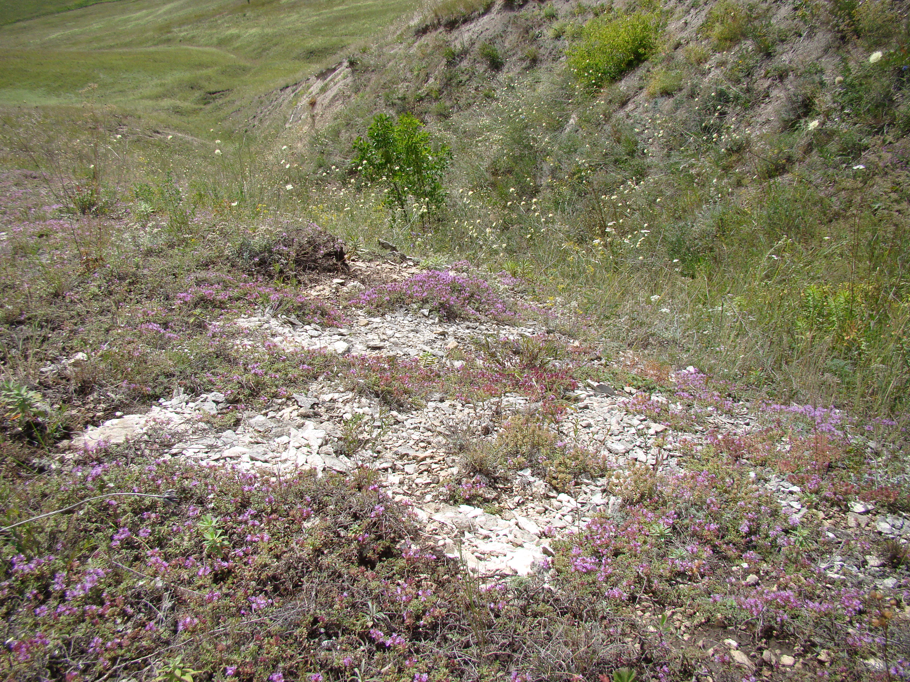 Thymus calcareus in Voronezh oblast, Russia